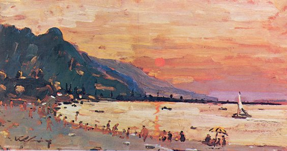 This is an artwork, depicting Diakopto beach/ Peloponnese in 1971, oil on wooden hardboard. A 2nd period work of Costas Koutsouris